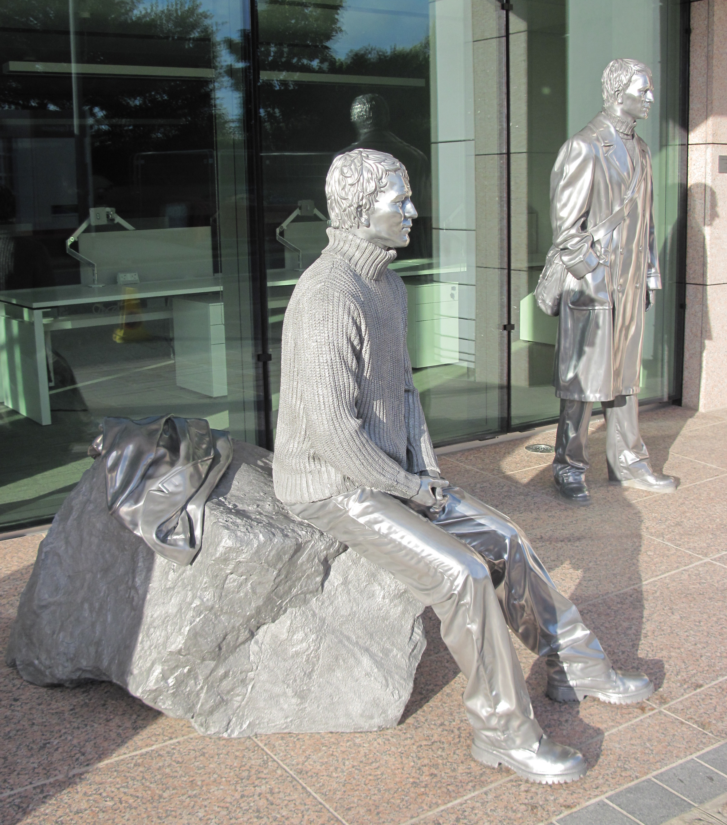 Public art at new building of law offices Ogier in Saint Helier, Jersey. Sculptor Mariele Neudecker: "2.5 Million Light Years and Doppelgänger", in cast aluminium - unveiled 28 July 2010 by Treasury Minister, Senator Philip Ozouf